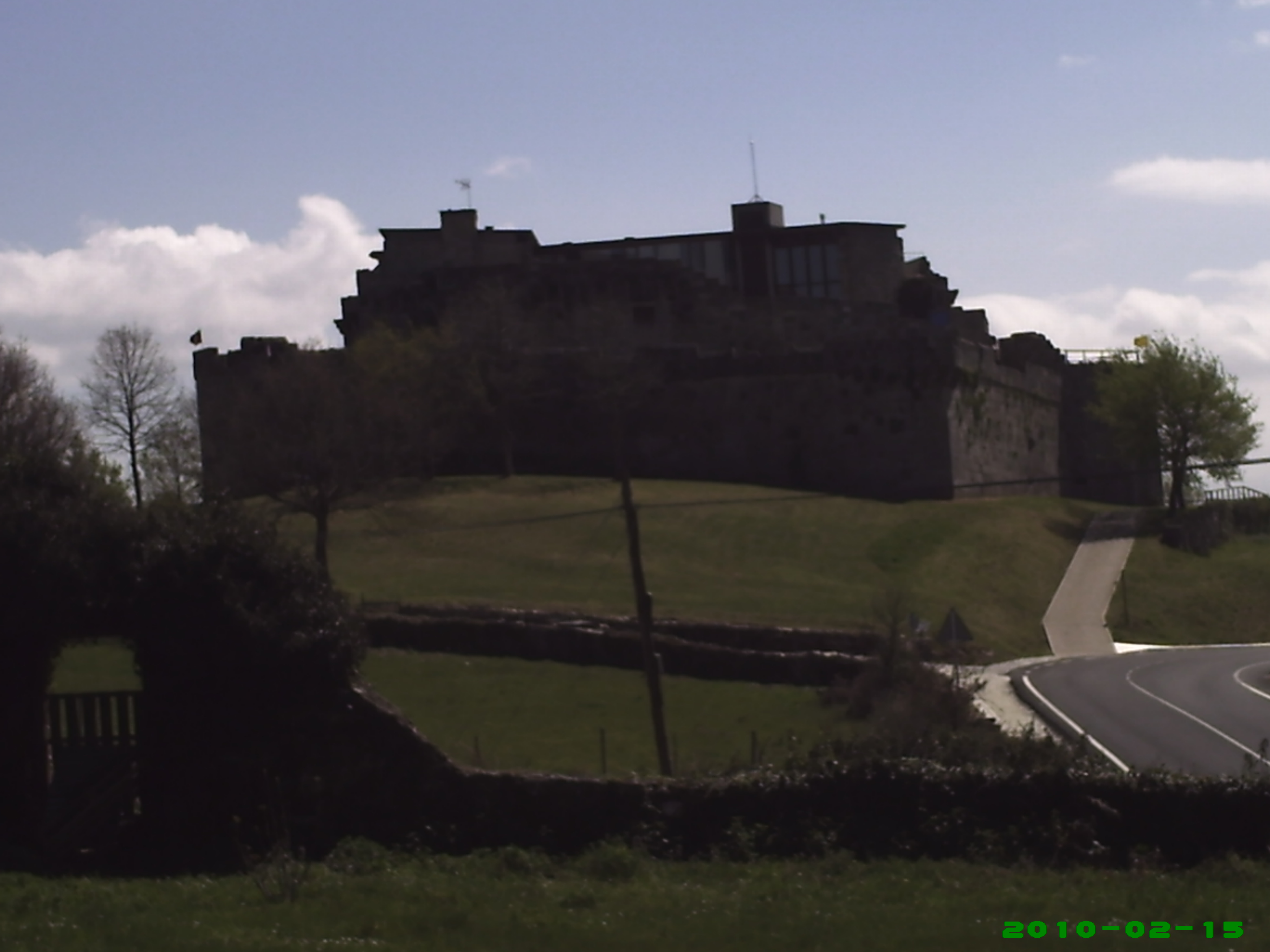 Castillo de maceda